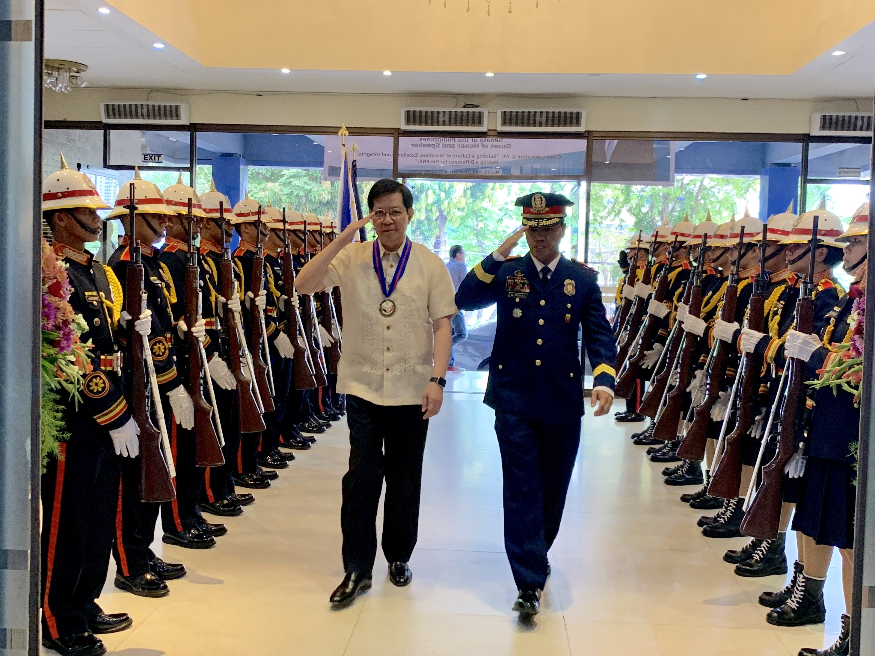 Senator and former PNP chief Ping Lacson is welcomed at the PNP Crime Lab anniversary in Camp Crame on May 23, 2019